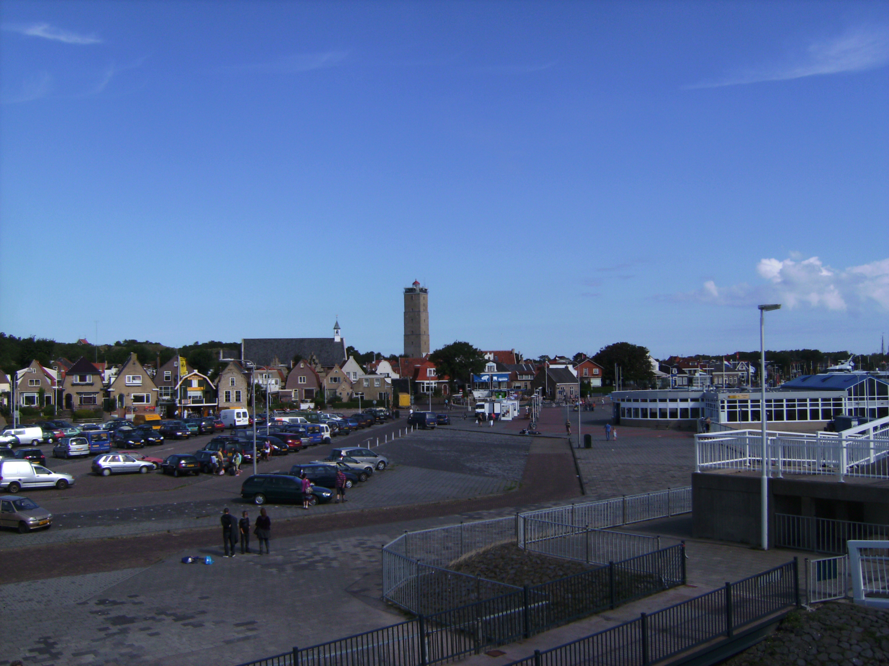 West-Terschelling, view to the village from the ferry